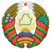 The Coat of Arms of Belarus